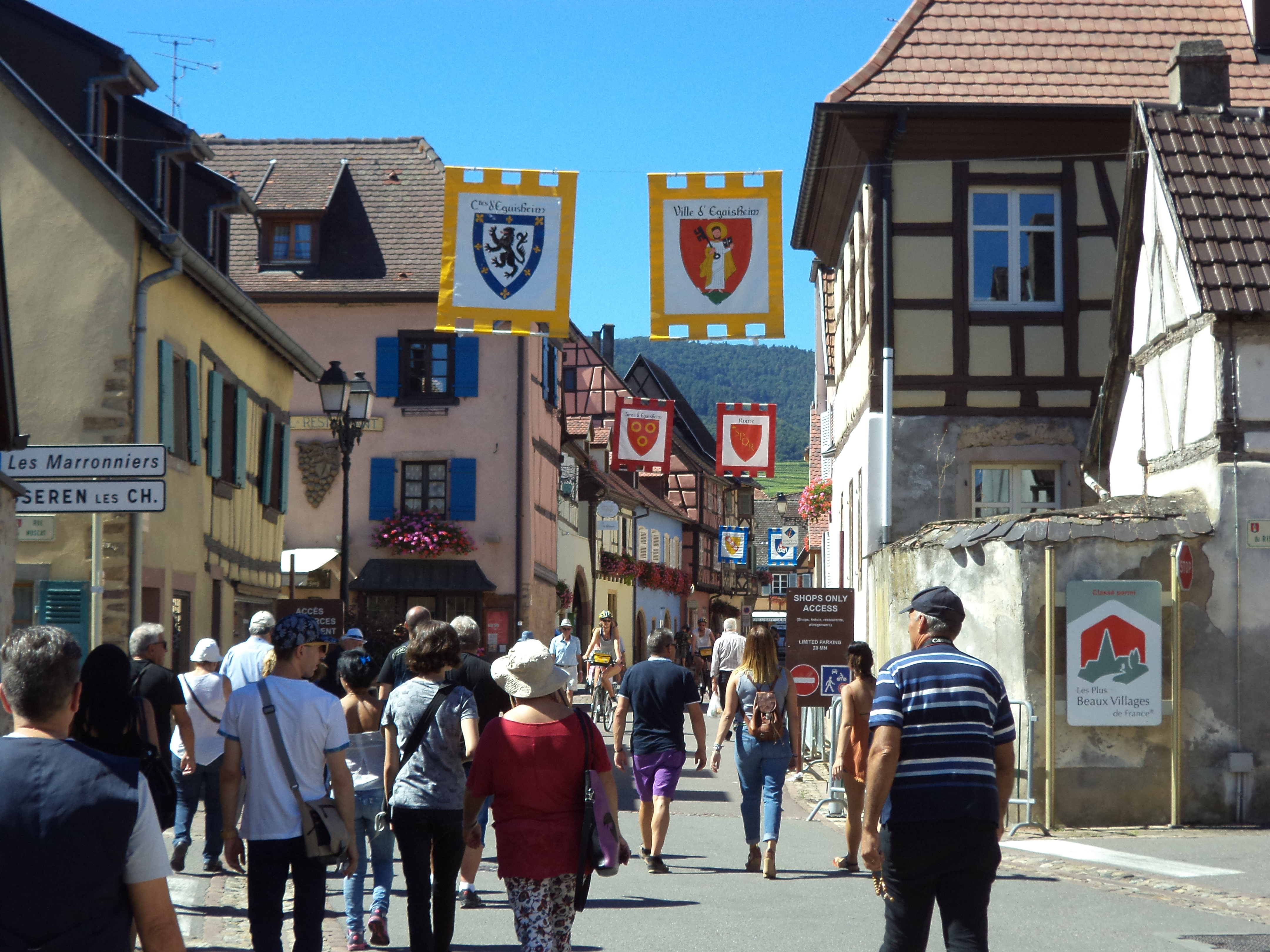 Turists entering the center of the old town